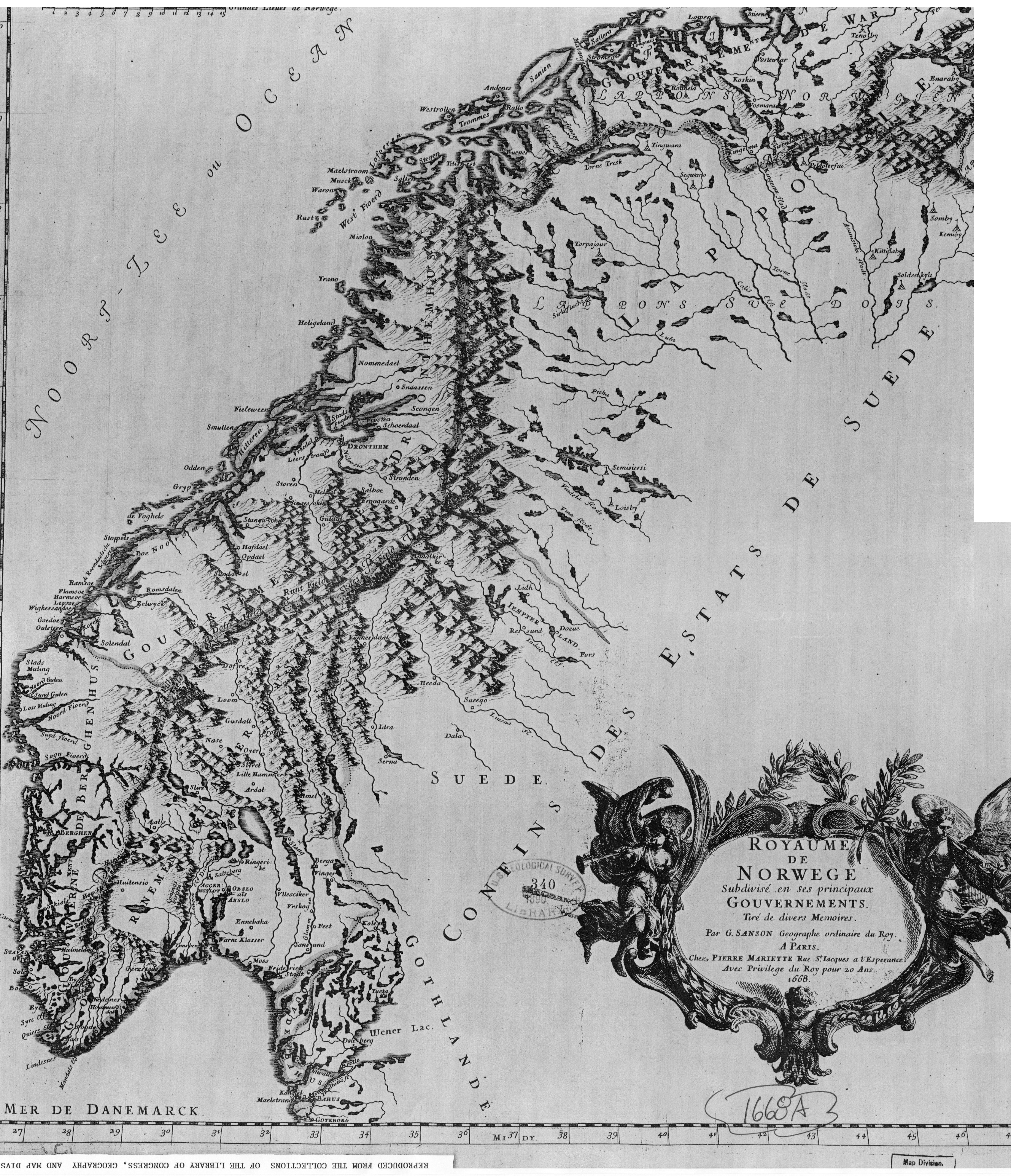 1668 Map of Norway by G. Sanson - French Map was scanned at the U.S. Library of Congress. Due to the date of production of the original, this work is in the public domain.